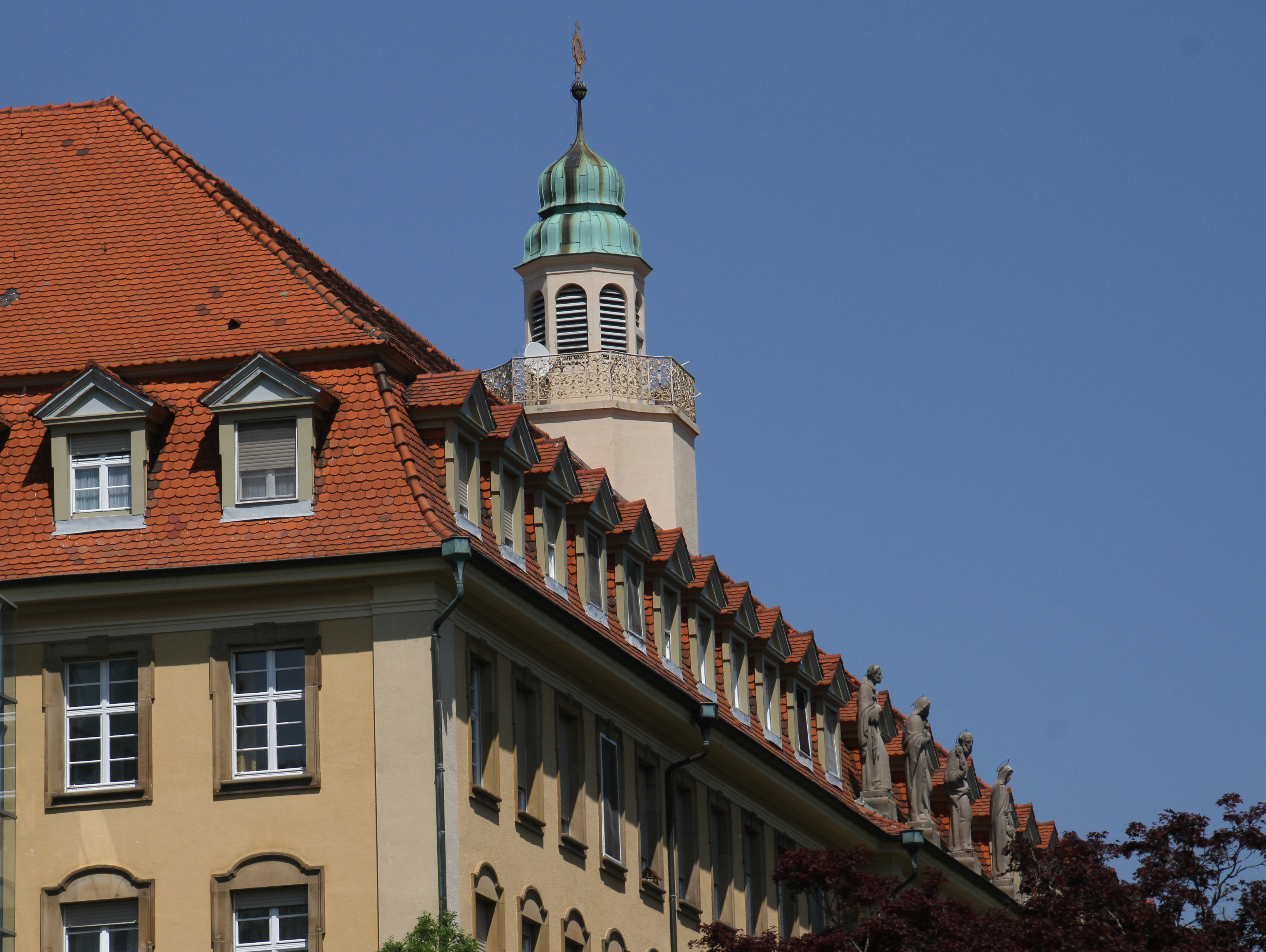 Nunnery Erlenbad in Sasbach (Ortenau)